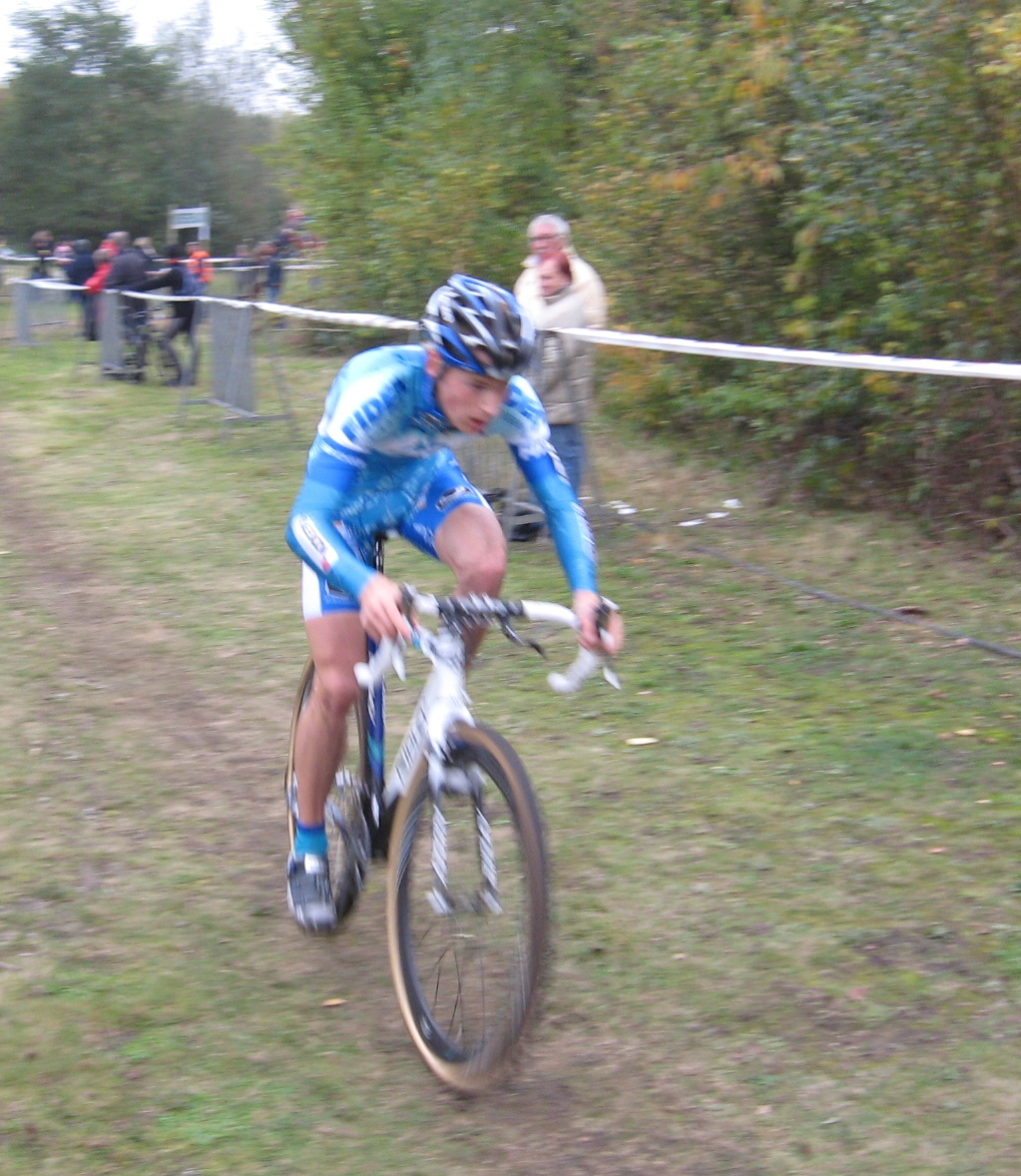 Kevin Pauwels in action during the cyclo-cross race in Zonhoven, Limburg, Belgium